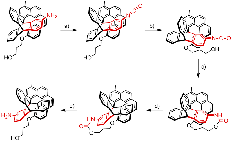 Chemically driven rotary molecular motor, Kelly 1999